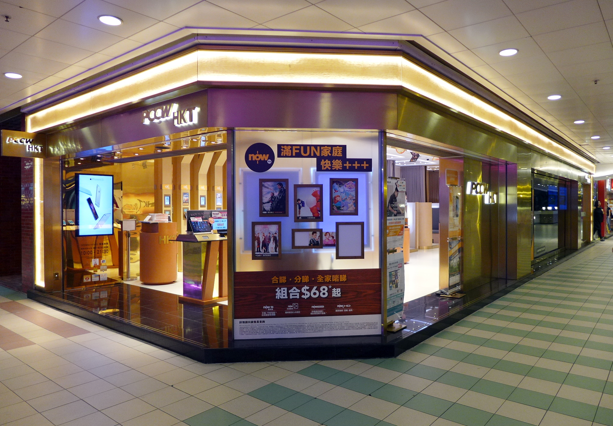 PCCW Shatin Store